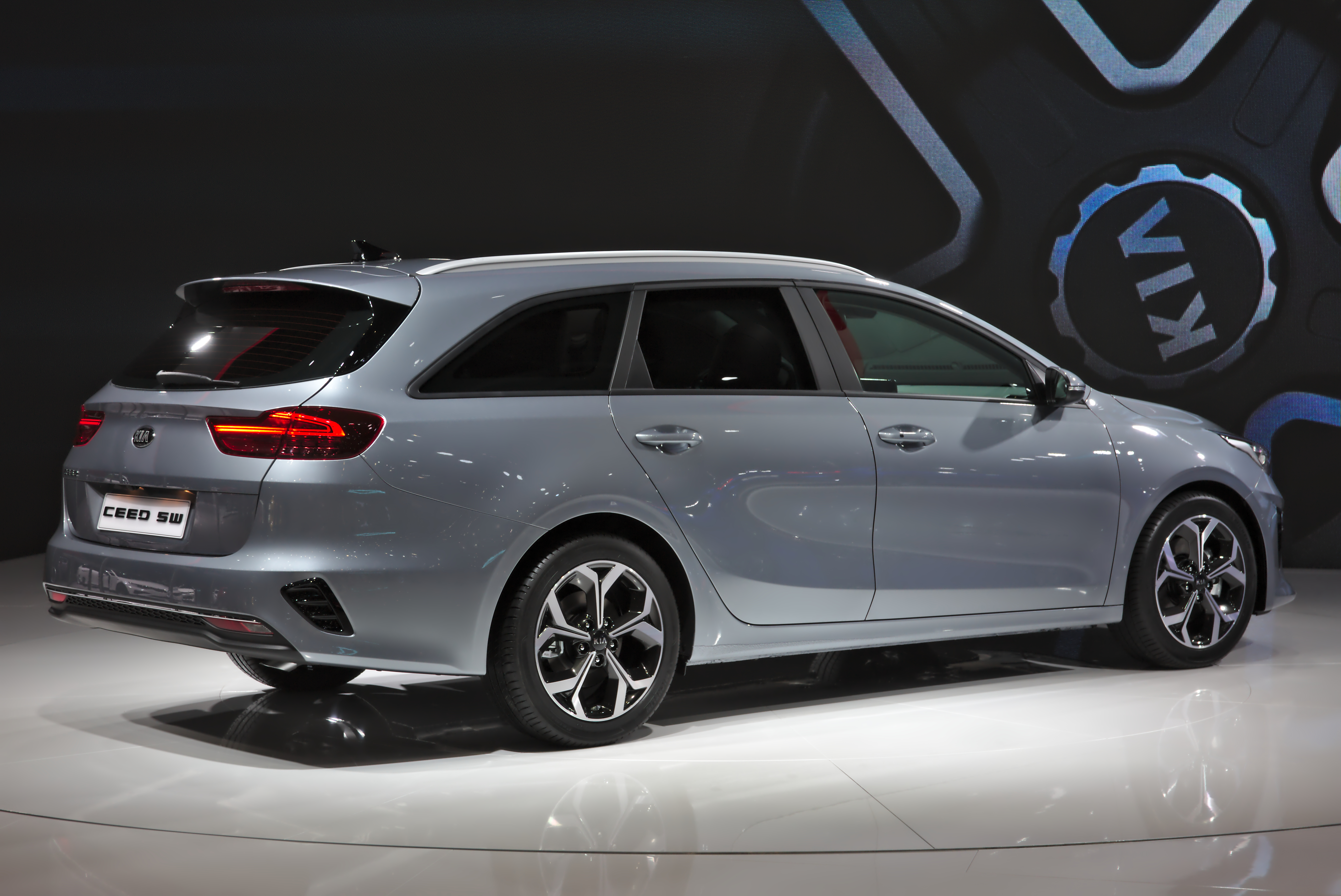 Kia Ceed at Geneva Motorshow 2018